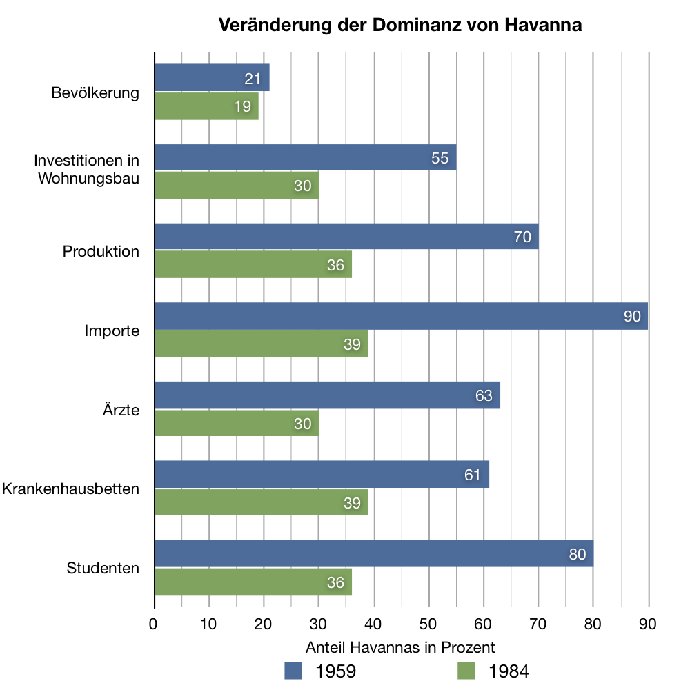 Dominance of Havana 1959 and 1984 in different Categories.